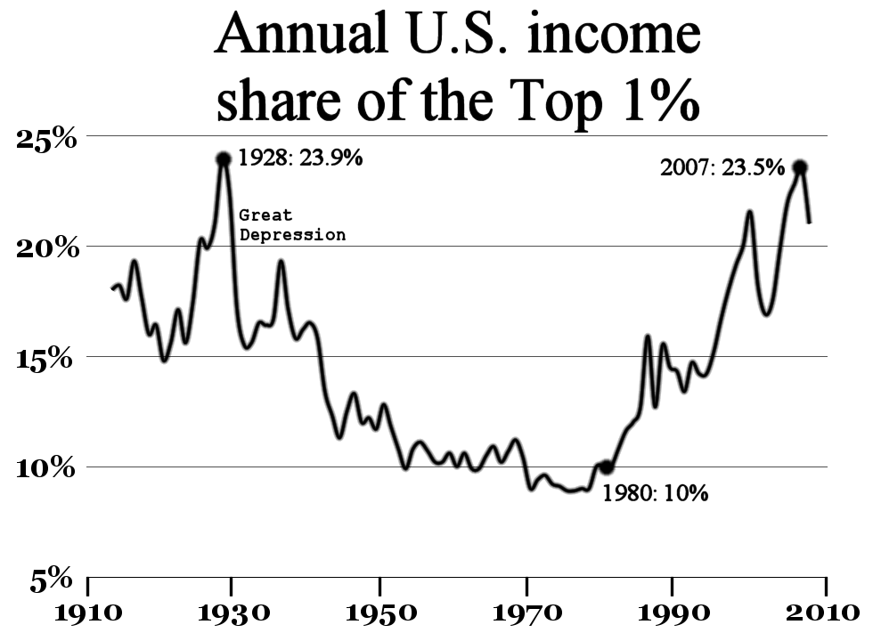 A chart demonstrating increases in the annual income of the top 1% of wealthy persons in the U.S. before economic crises.